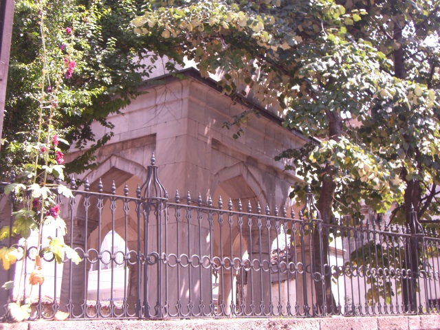 The mausoleum of Devlet Hatun built by her son, Sultan Mehmed I.